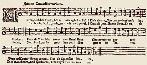 Merck toch hoe sterck by Adriaen Valerius. From his book Nederlandtsche Gedenck-clanck (Haarlem, 1626), page 247